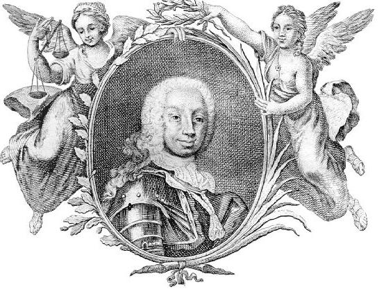 Portrait of Charles Emmanuel III of Sardinia (1701-1773)